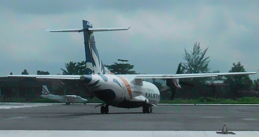 Taxiing along the tarmac.